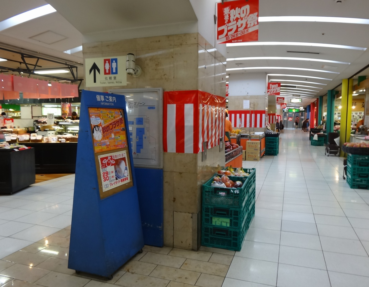 The Kumamoto Center Plaza - Foods Zone.